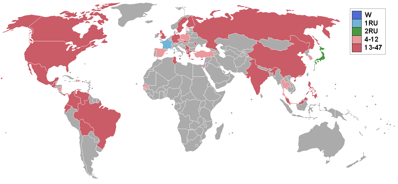 Miss International 2002 results map